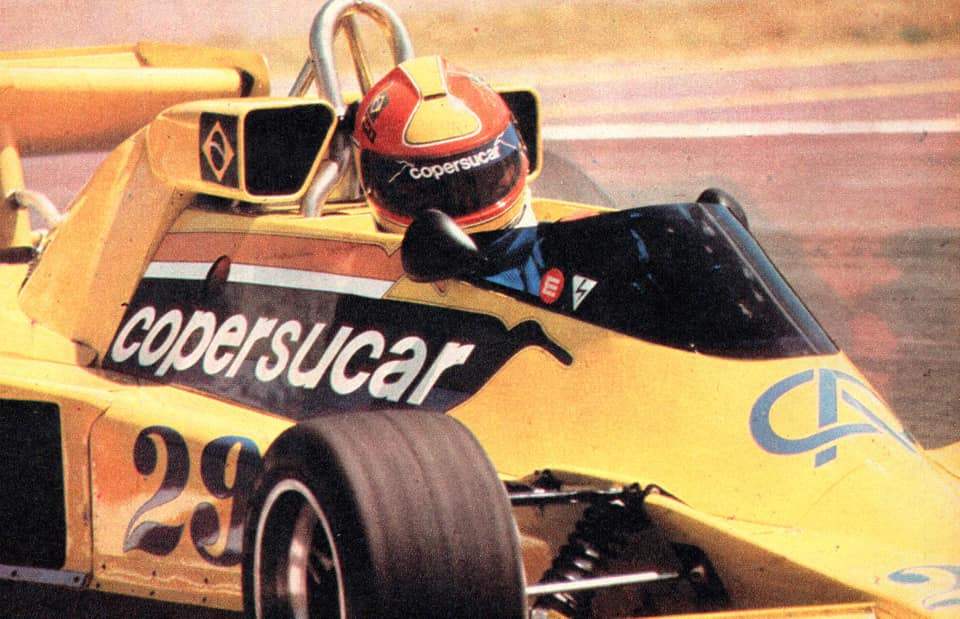 1977 Argentine Grand Prix Hoffmann